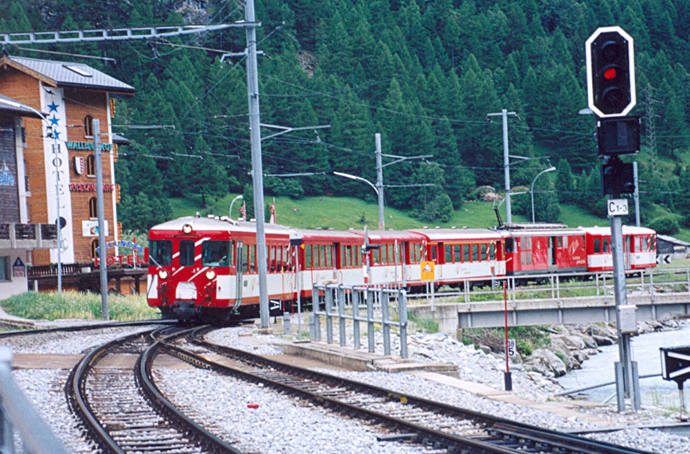 In principle, no motor vehicles are allowed in Zermatt. They must be parked at Täsch, 10 km (6 miles) away. This included our tour bus. You continue on this train. It looks like the locomotive is the next-to-last car, with driver's compartments at each end of the train.